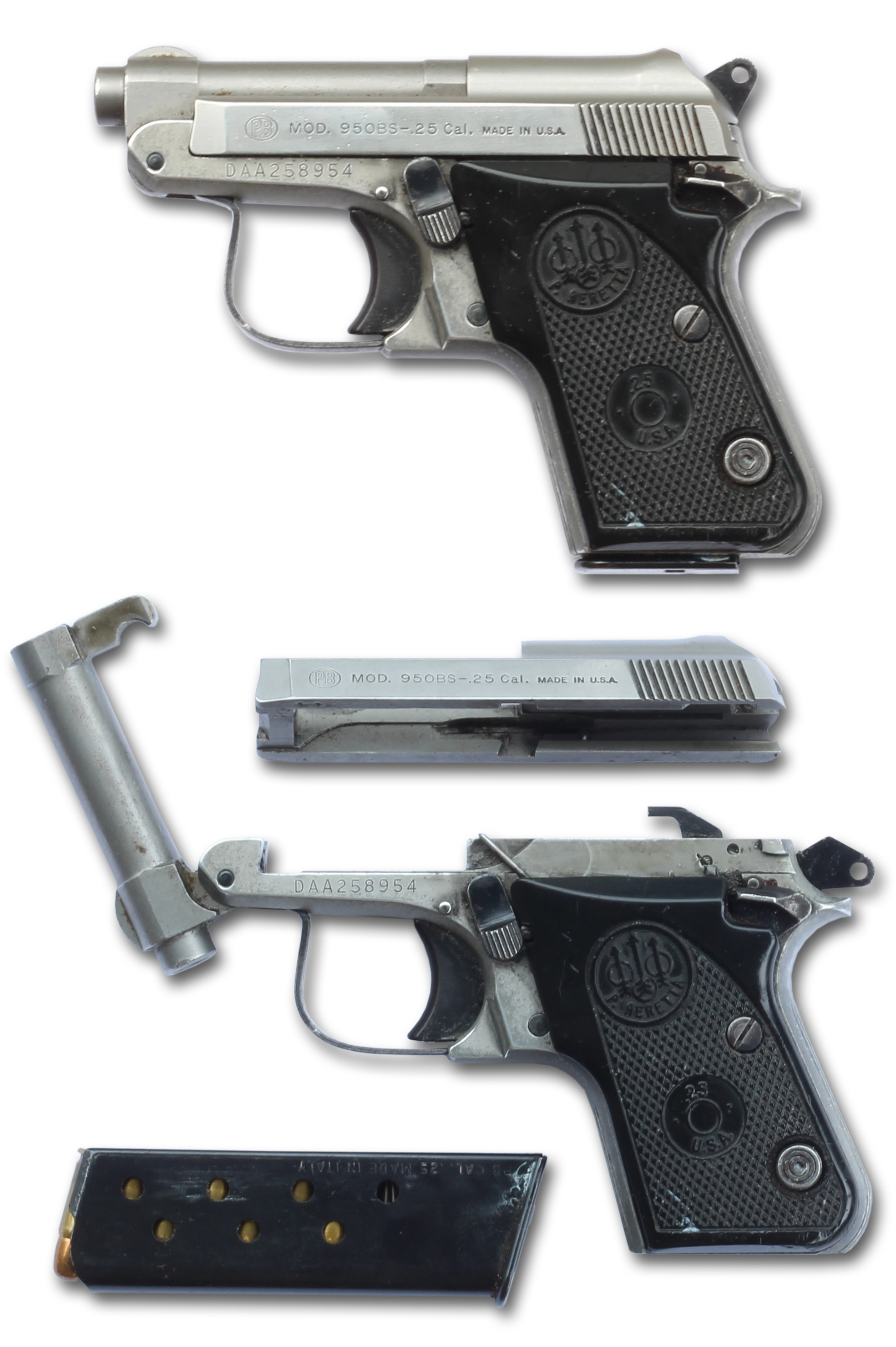 Post 1968 Beretta Jetfire Inox 950 BS (safety) the safety provides the option of carrying the pistol cocked. Below. Basic dismounting for routine cleaning. Pictured item courtesy of MIke Cumpston